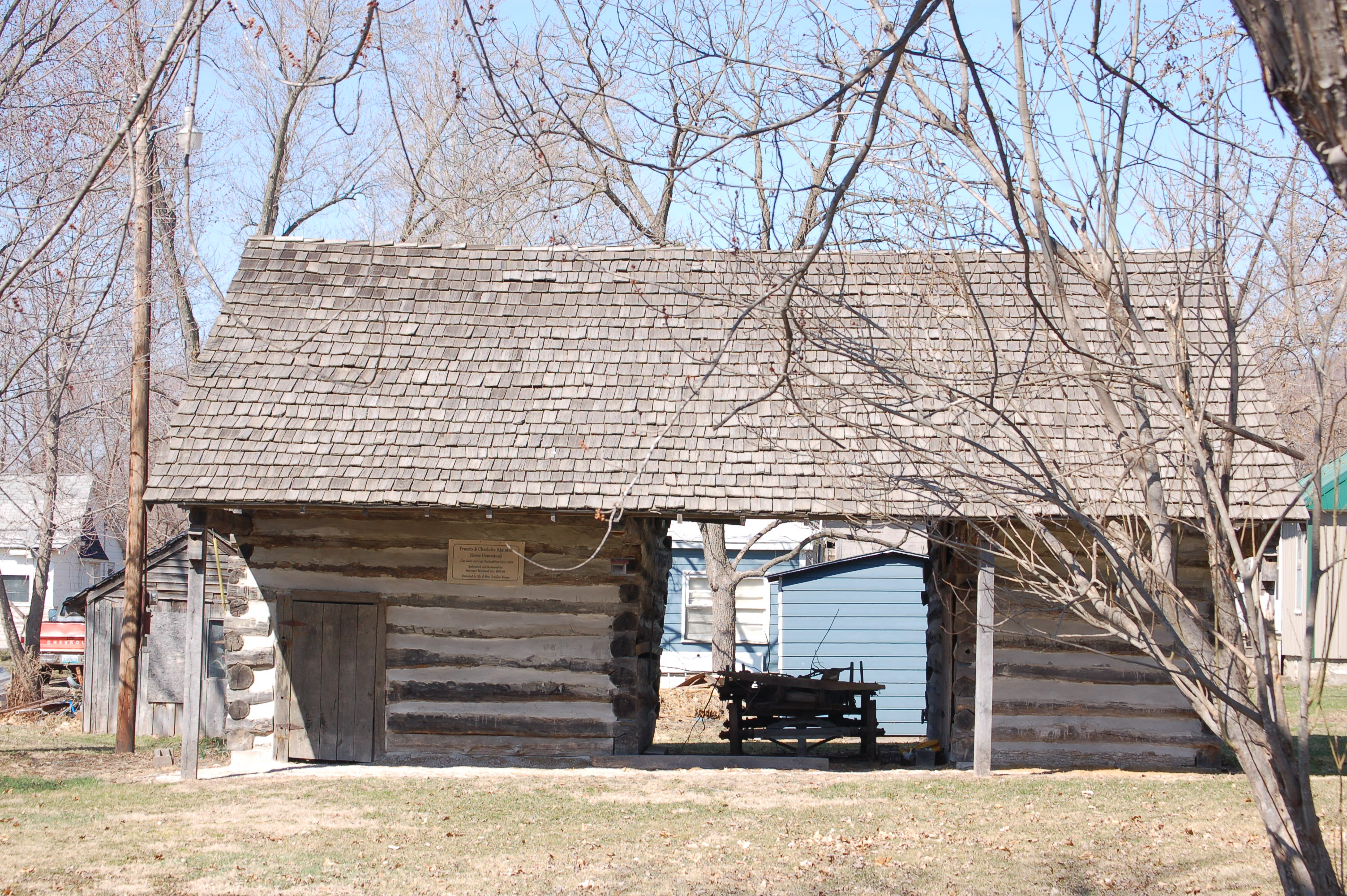 Reese Family barn. Part of the historic log homestead, Novinger, Missouri.